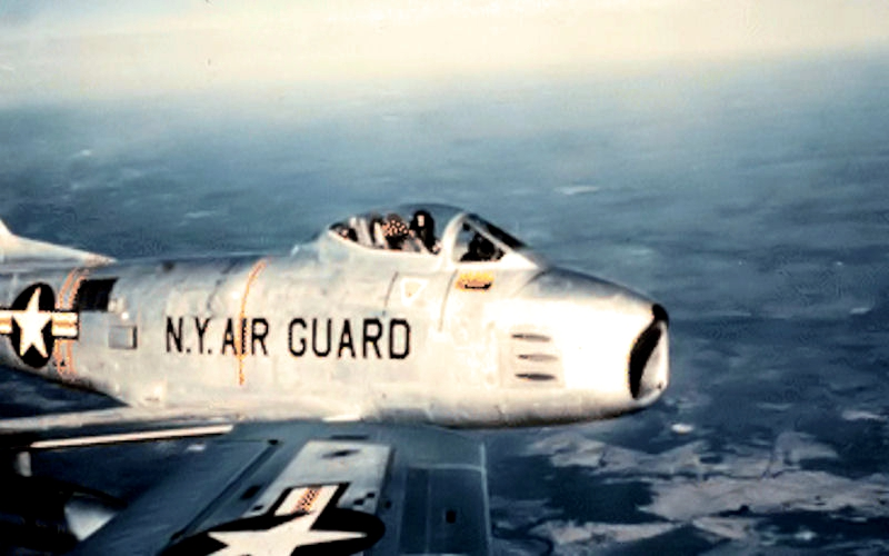 A U.S. Air Force North American F-86H Sabre from the 139th Tactical Fighter Squadron, 109th Tactical Fighter Group, New York Air National Guard. The 109th TFS flew the F-86H from 1957 to 1960.